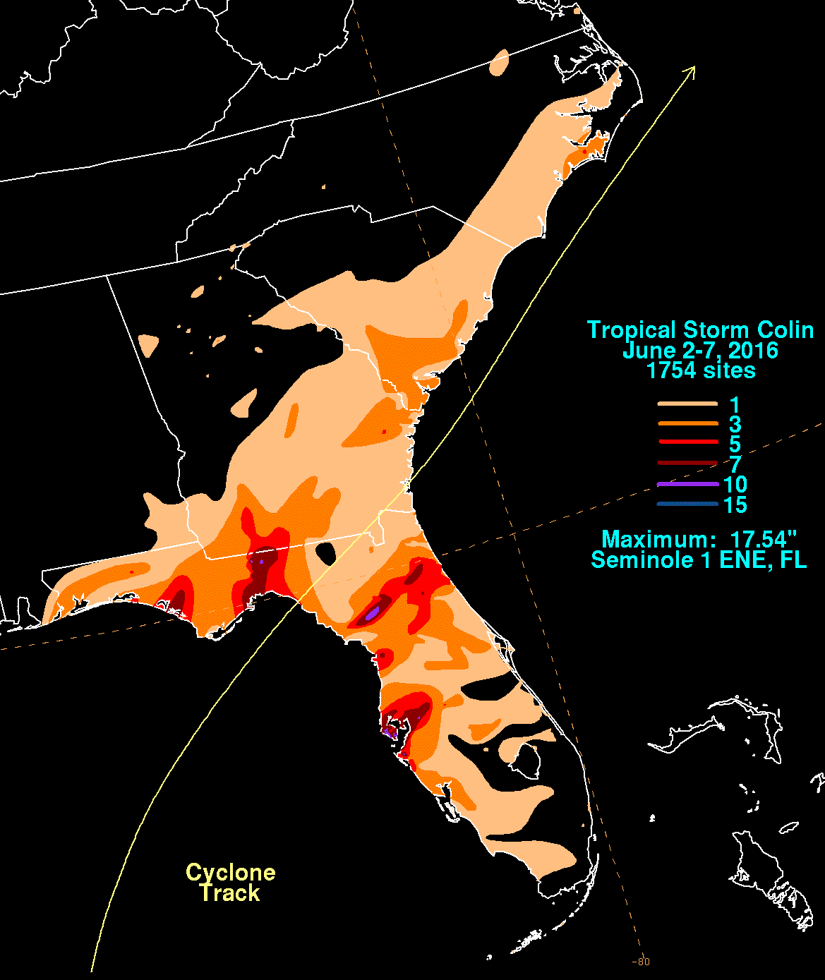 Map of rainfall associated with Tropical Storm Colin across the Southeastern United States in early June 2016